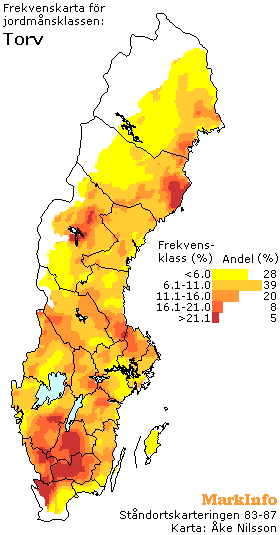 Frequence map for peat in Sweden. Different frequencies of peat is shown by various color, and the bar chart shows their share of the total.